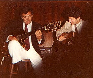 Jazz guitarists Bucky and John Pizzarelli at the Village Jazz Lounge in Walt Disney World